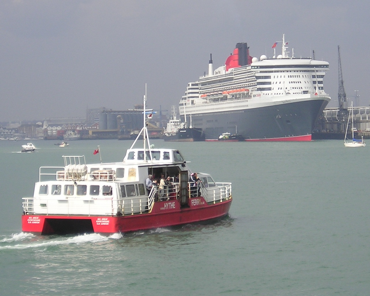 Great Expectations leaving Hythe Pier, Queen Mary 2 in background. 12 April 2004. Photo by Paul Dashwood